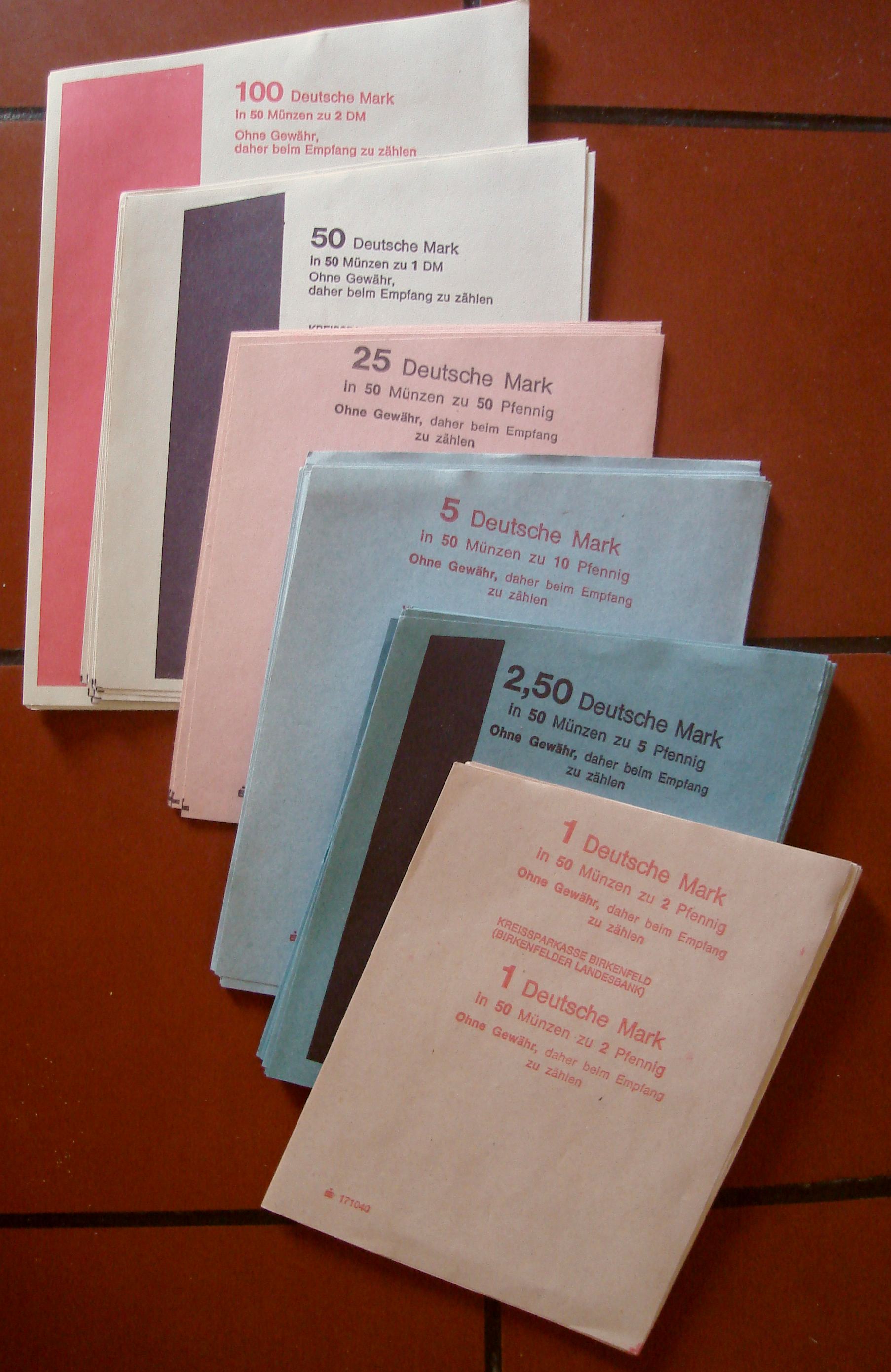 Deutsche Mark coin wrappers, West Germany, paper